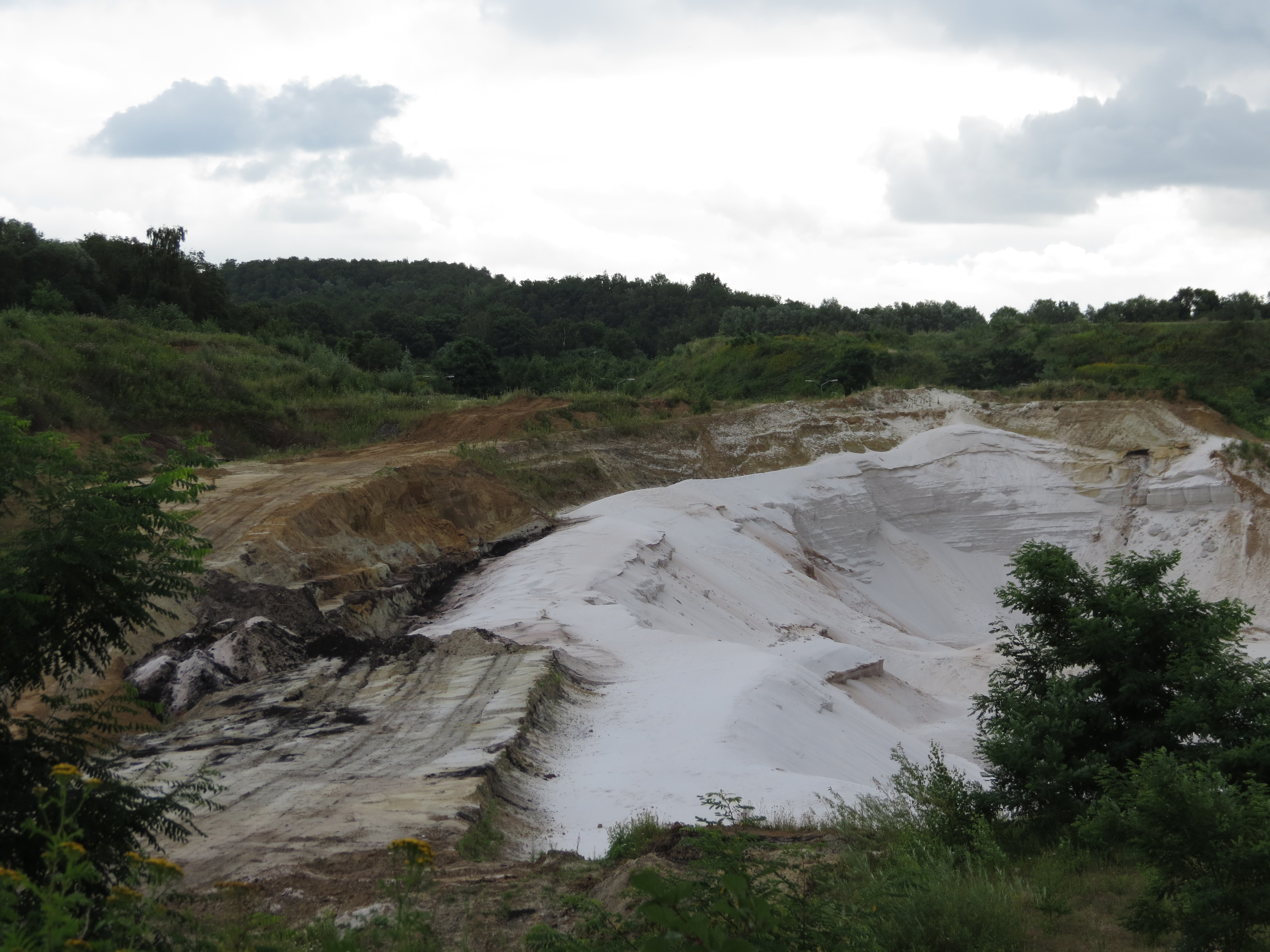 Quartz sand quarry, Heerenweg West, Heerlen, The Netherlands